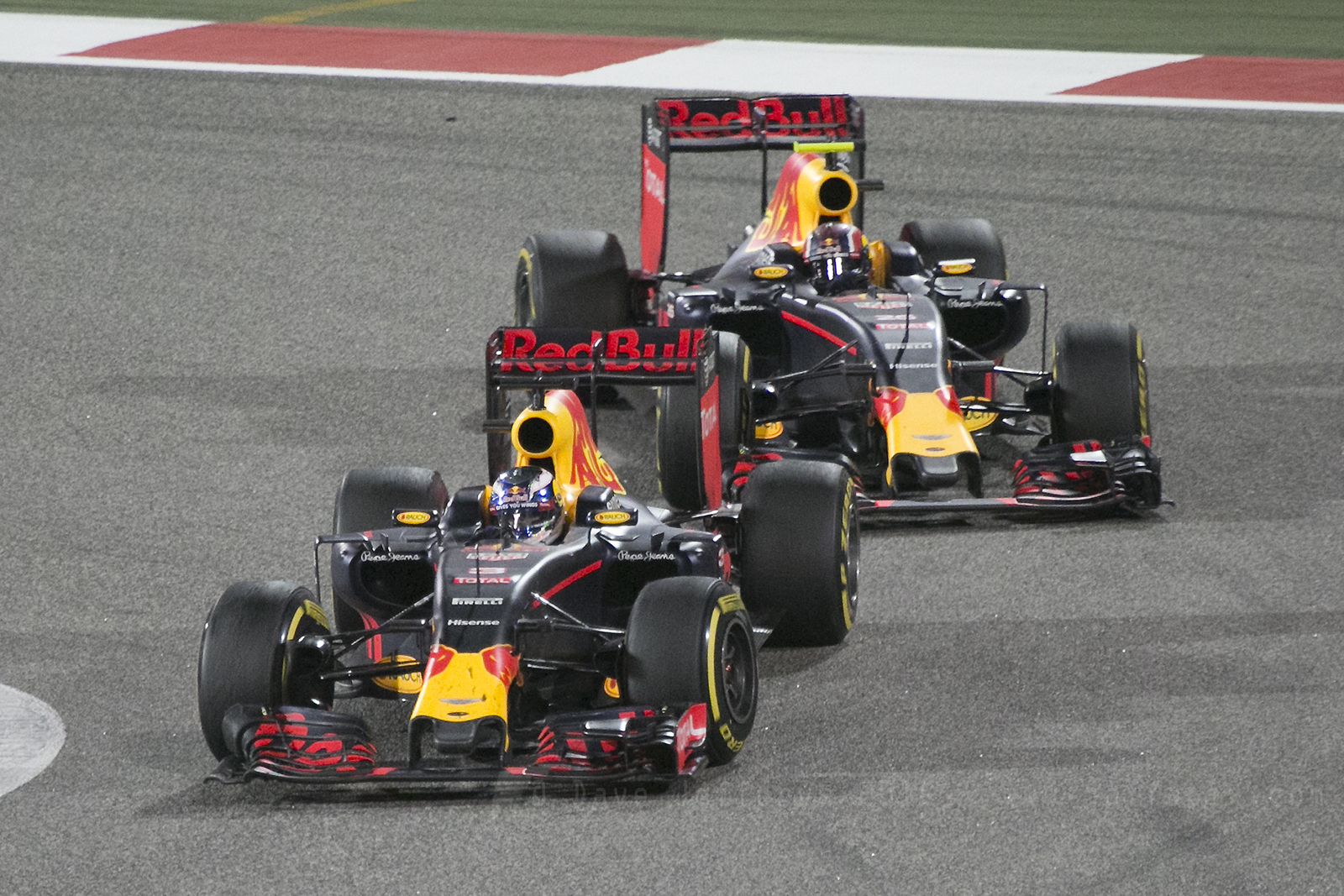 Ricciardo and Kyat at the 2016 Bahrain Grand Prix